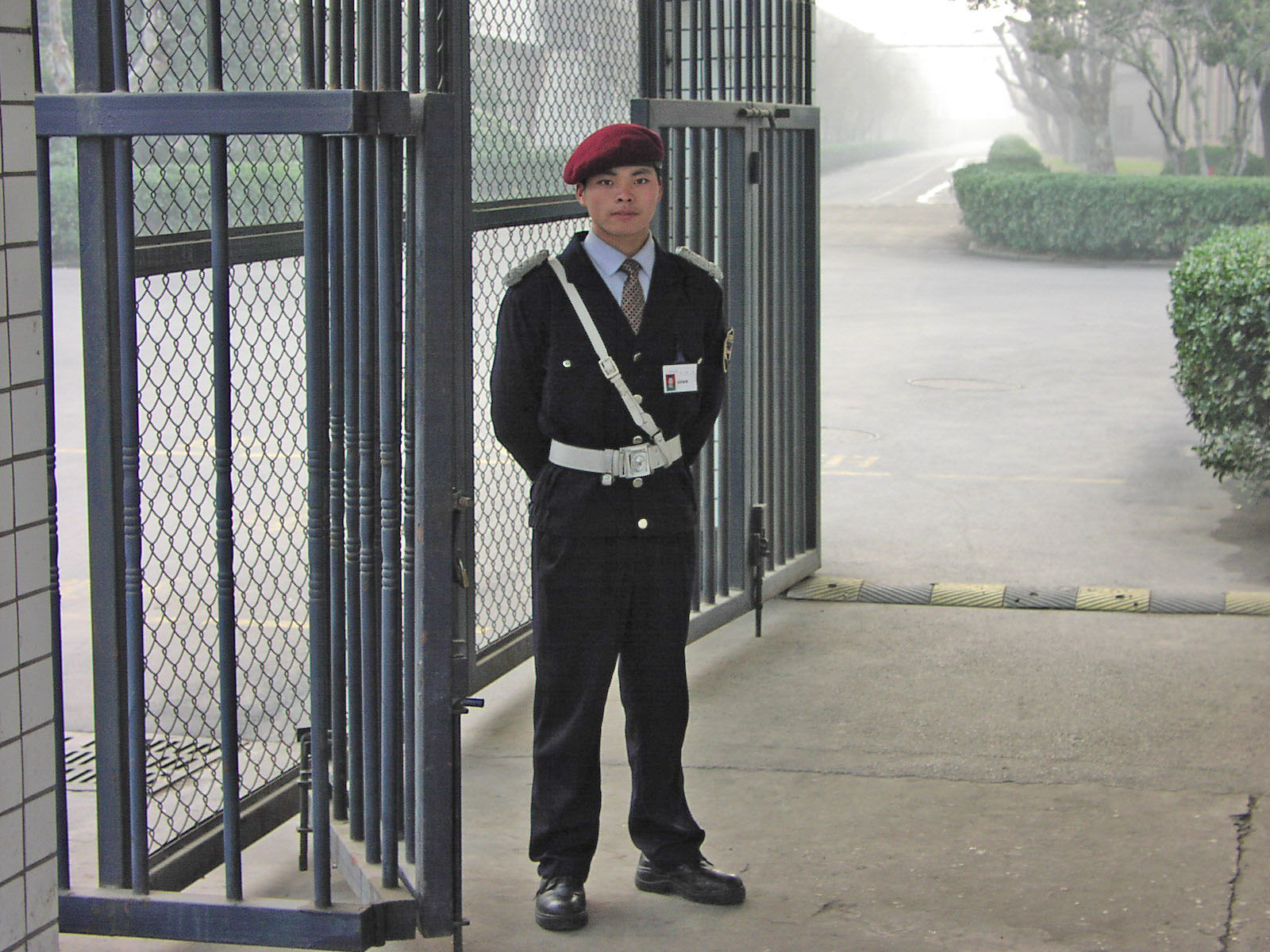 A private security officer at a Chinese factory in February 2004.